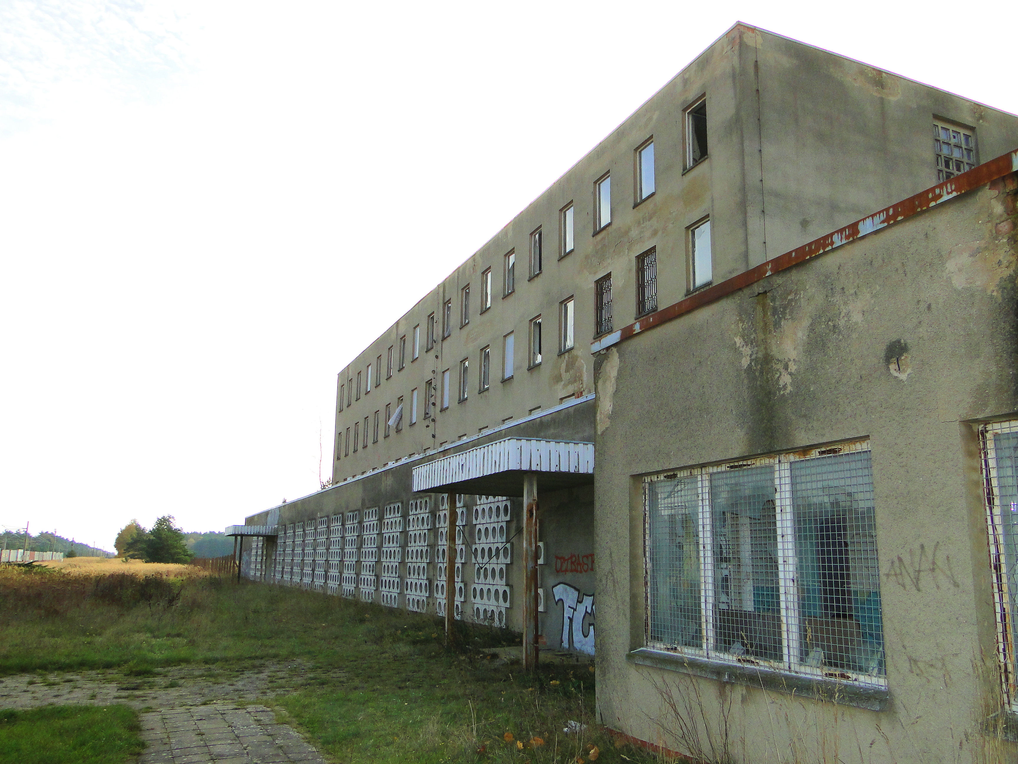 Abandoned checkpoint building at train station in Schwanheide, district Ludwigslust-Parchim, Mecklenburg-Vorpommern, Germany